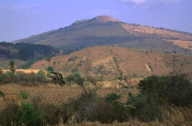 Volcán Flores (shown on topographic maps as Volcán Amayo) rises above foothills on its western flank. The volcano is one of the largest of a group of small volcanoes behind the volcanic front in SE Guatemala and rises about 600 m above its base.